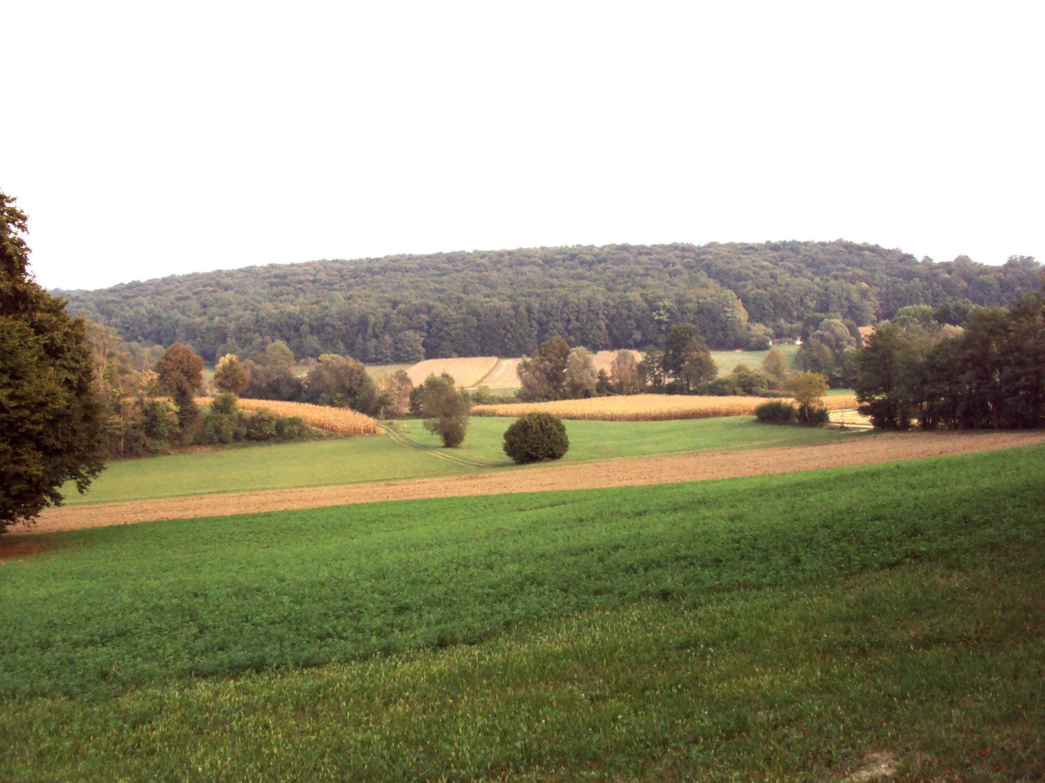 Countryside in Puričani, Bjelovar, Croatia